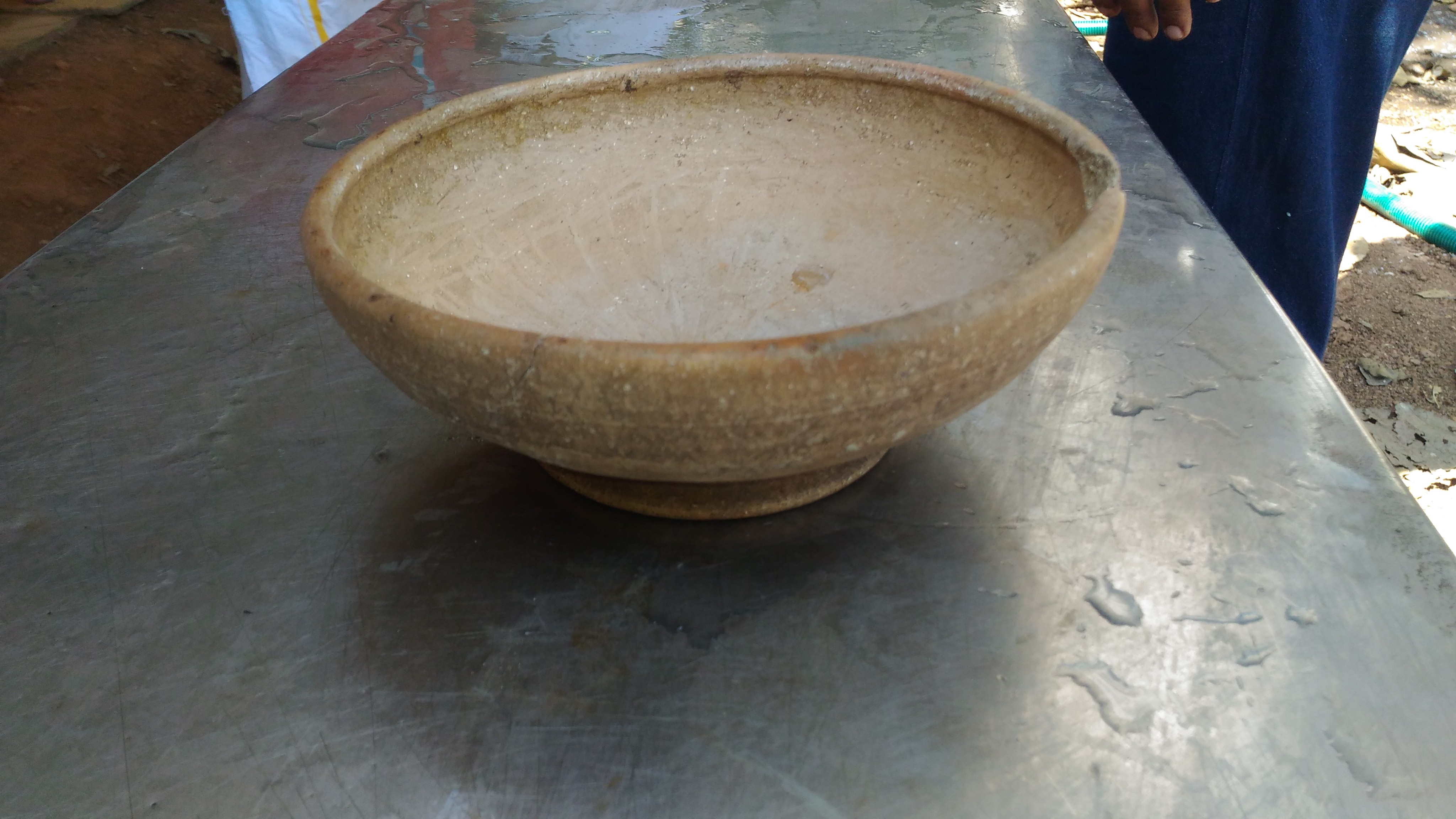 Earthenware bowl